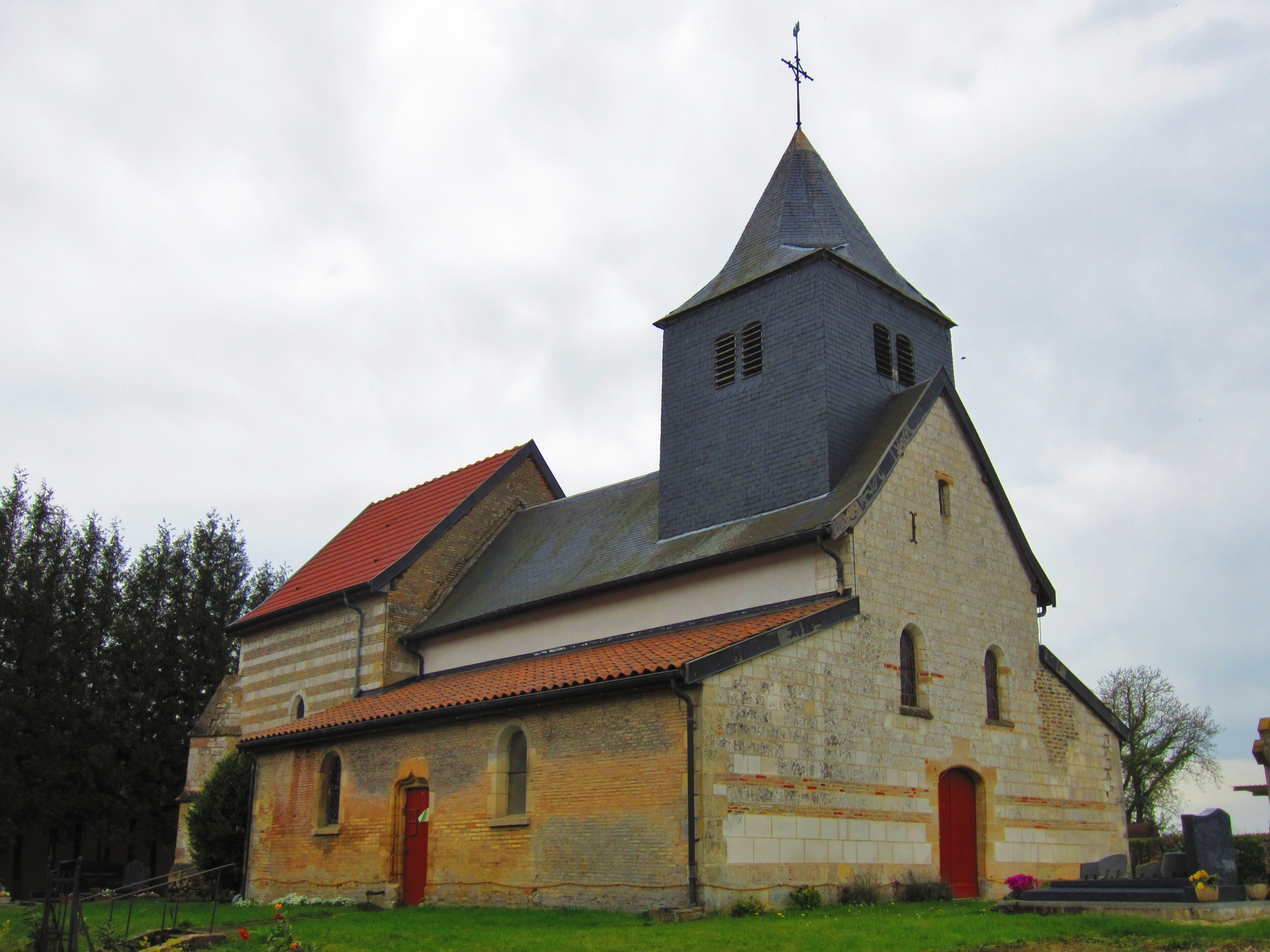 St. Nicholas' church in Daucourt (municipality of Élise-Daucourt, canton Sainte-Ménehould, arrondissement Sainte-Ménehould, Marne department, Champagne-Ardenne region, France).